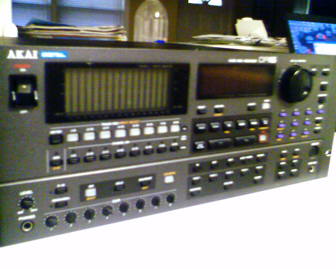 Akai Professional DR16 8tr/16ch recorder